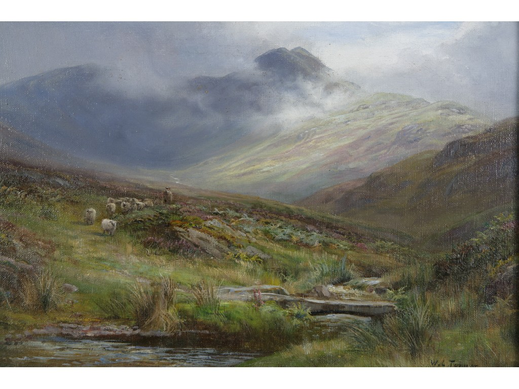 William Lakin Turner was born on 25 February 1867 at Barrow on Trent, Derbyshire, the son of George Turner (1841-1910) and Eliza Turner (nee Lakin) (1837-1900).